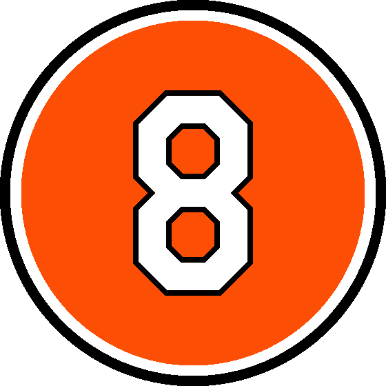 The number "8", retired for Cal Ripken, Jr by the Baltimore Orioles.